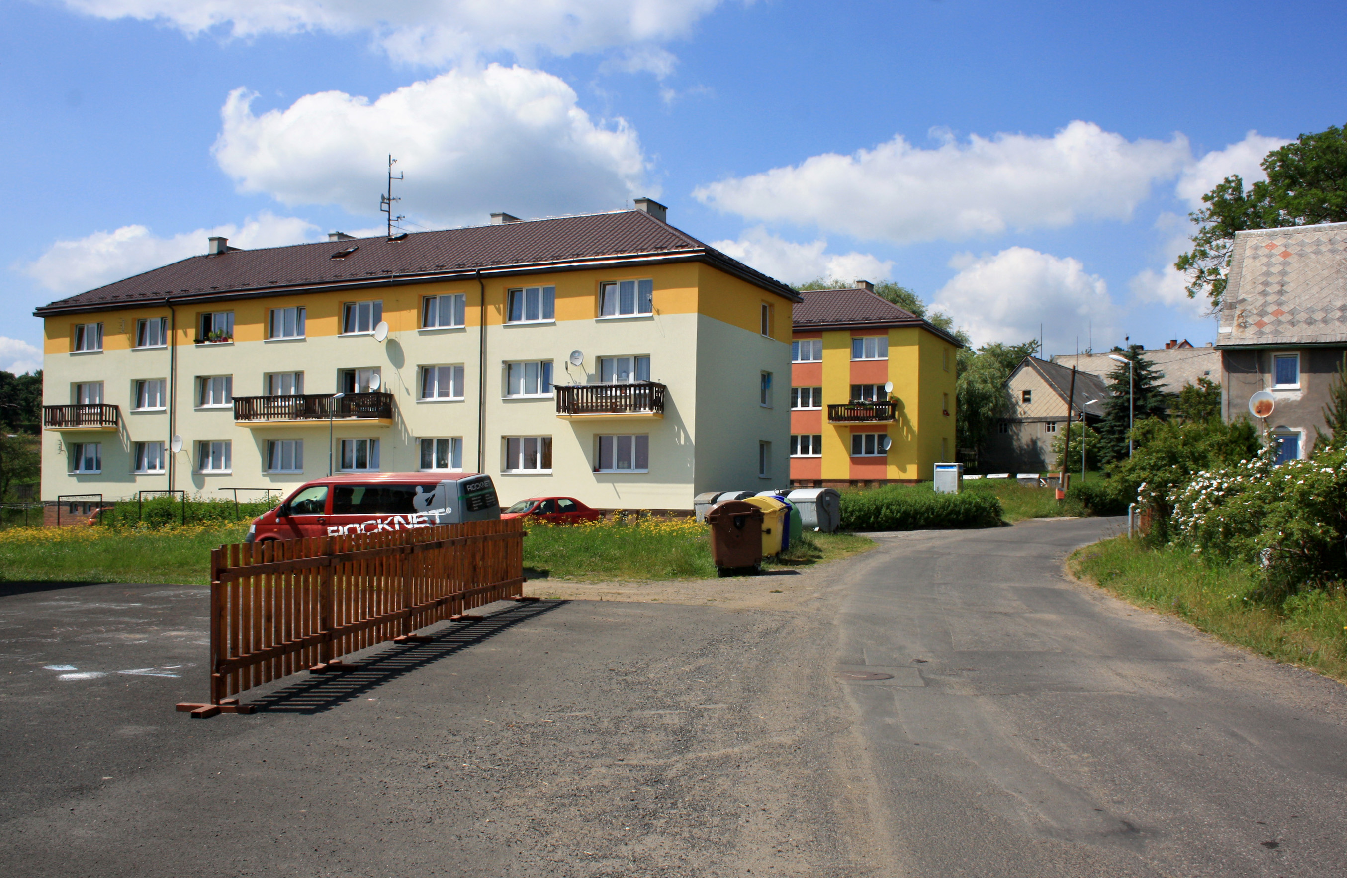 Tenement houses at Blatno, Czech Republic